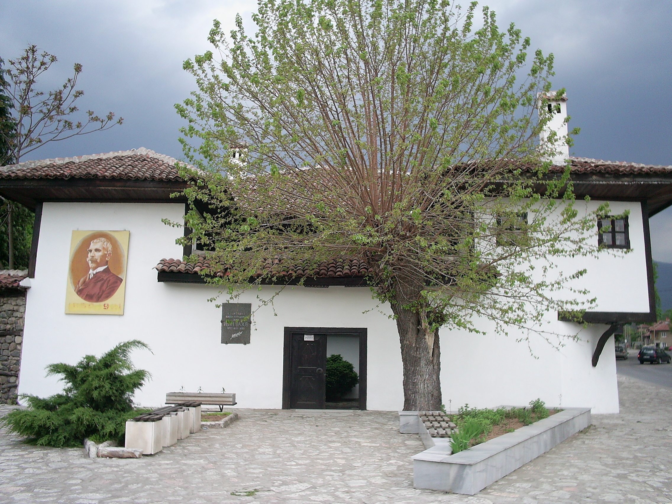 Berkovitza, Bulgaria: the house-museum "Ivan Vazov"